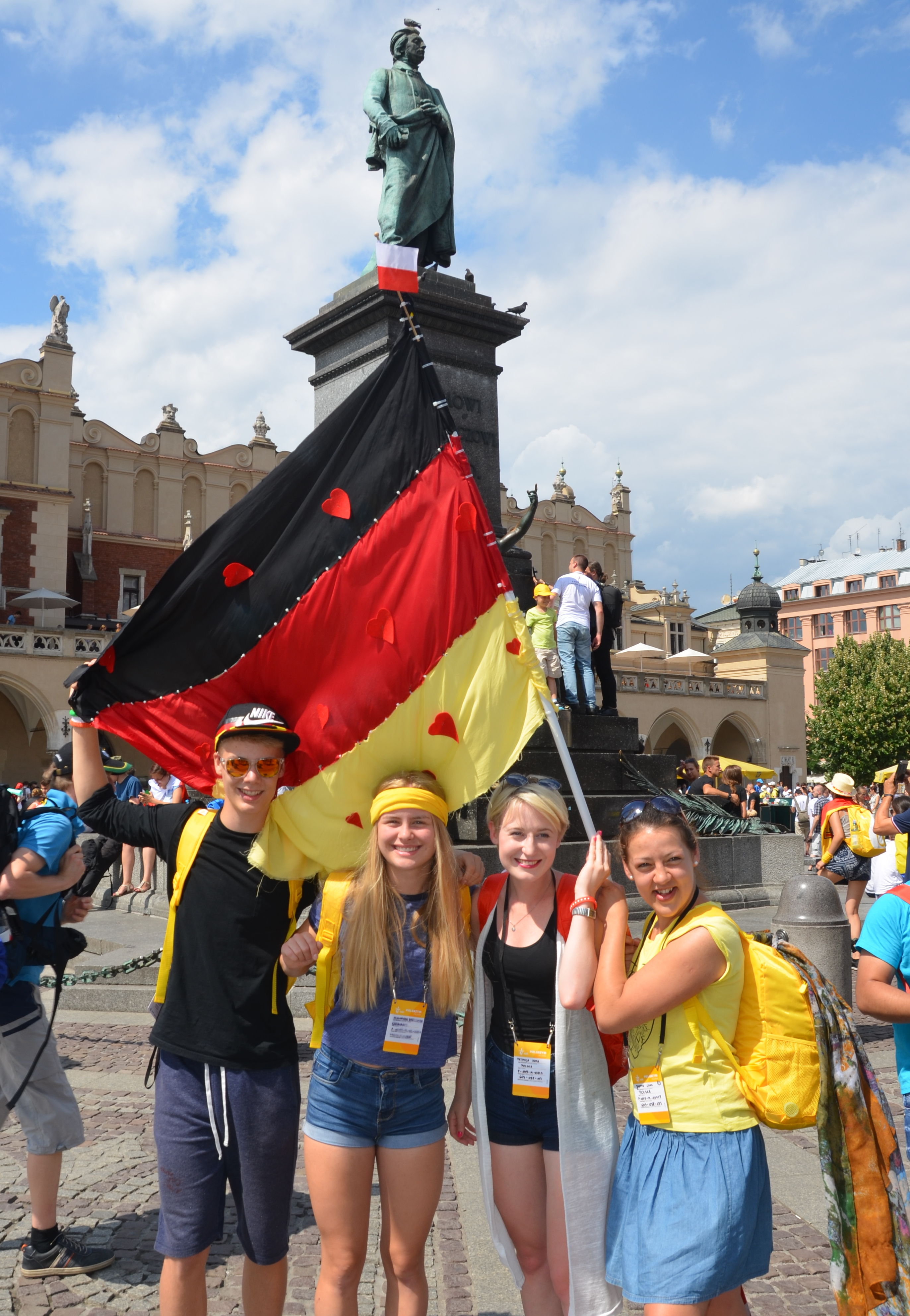 Die Teilnehmer am Weltjugendtag 2016 in Krakau